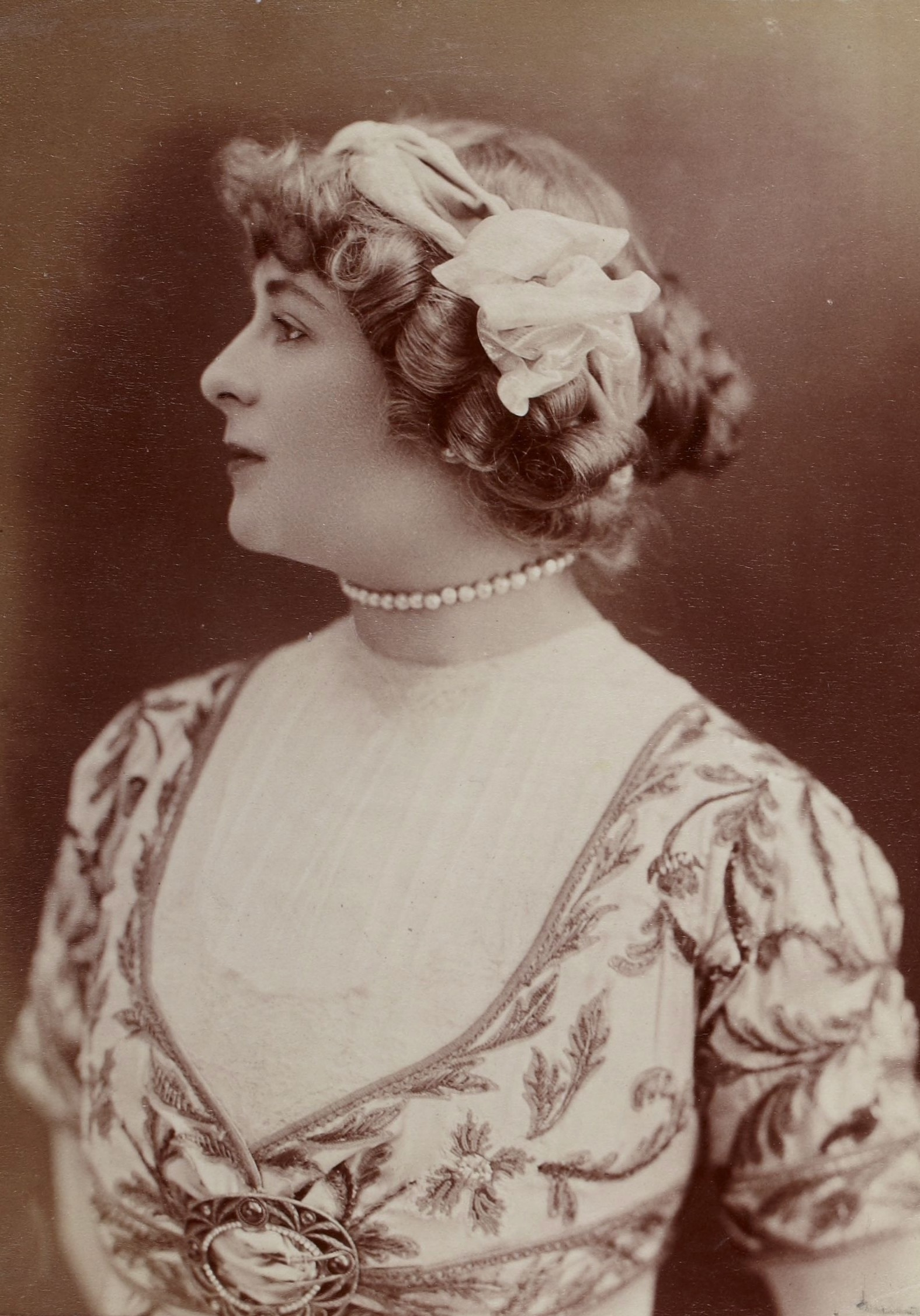 [Album Reutlinger de portraits divers, vol. 50] : [photographie positive] : Cassive